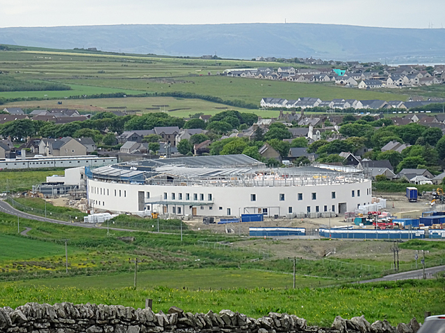 New Hospital, Orkney Islands